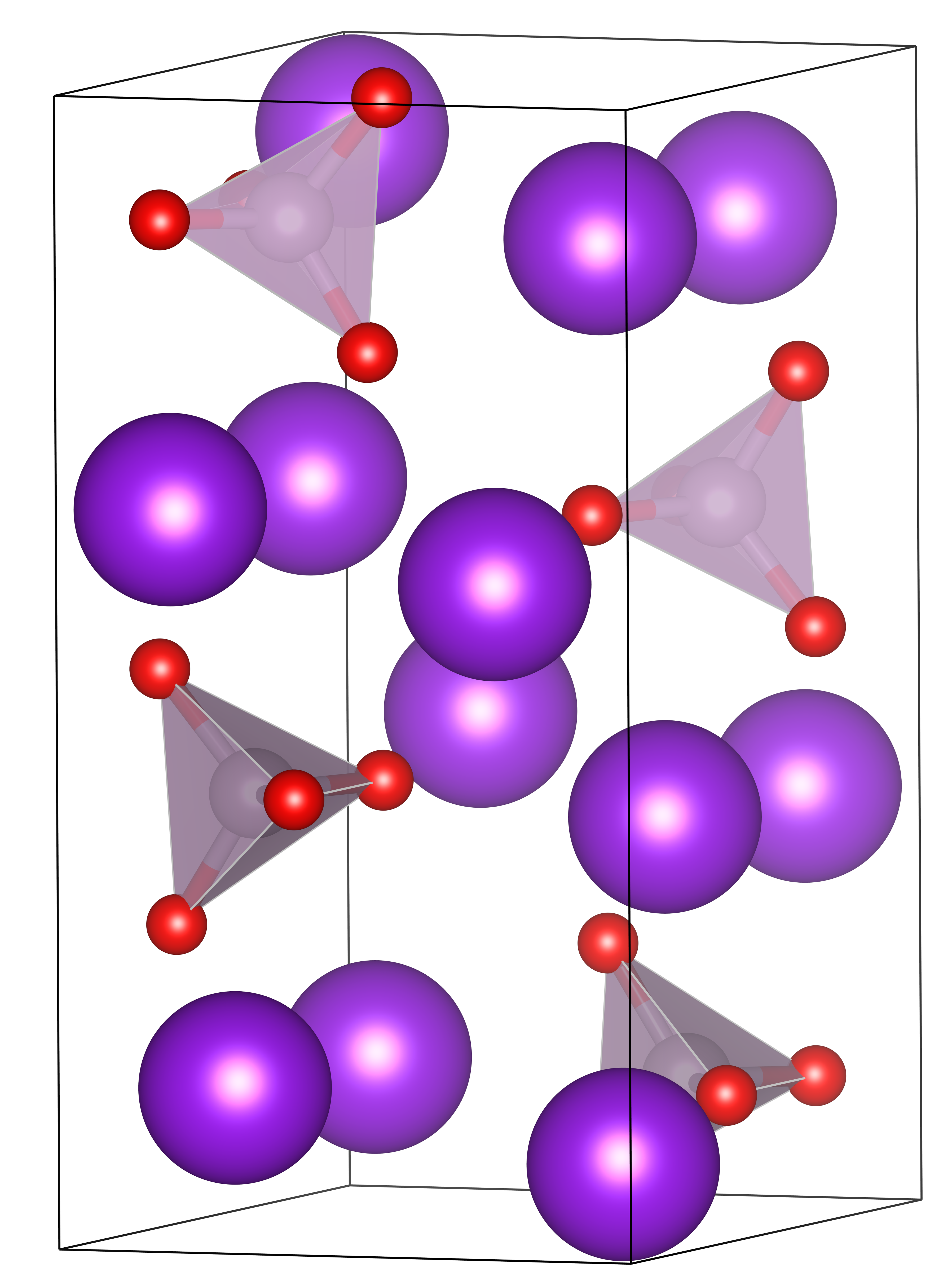 Unit cell of potassium phosphate (K3PO4). Created with VESTA. Source of crystal structure